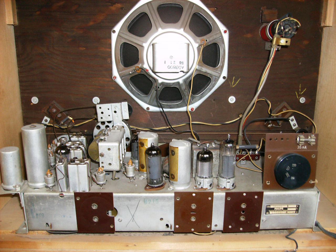 Inside of Philips BX645 radio from 1956